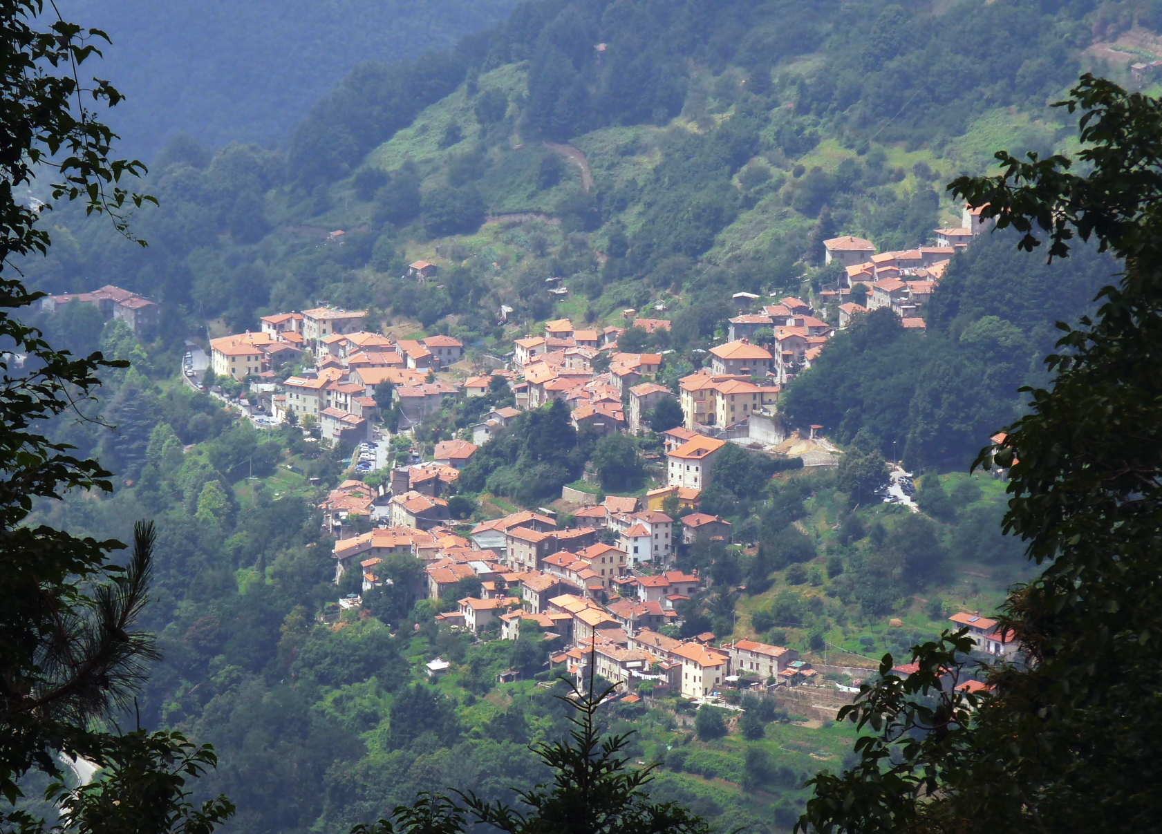 View of Stazzema, Province Lucca, Tuscany, Italy - from Rifugio Forte dei Marmi